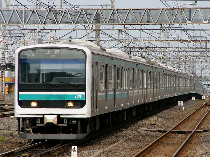 JR East E501 series EMU set K704 as part of a 10+5-car formation on a Joban Line service to Ueno